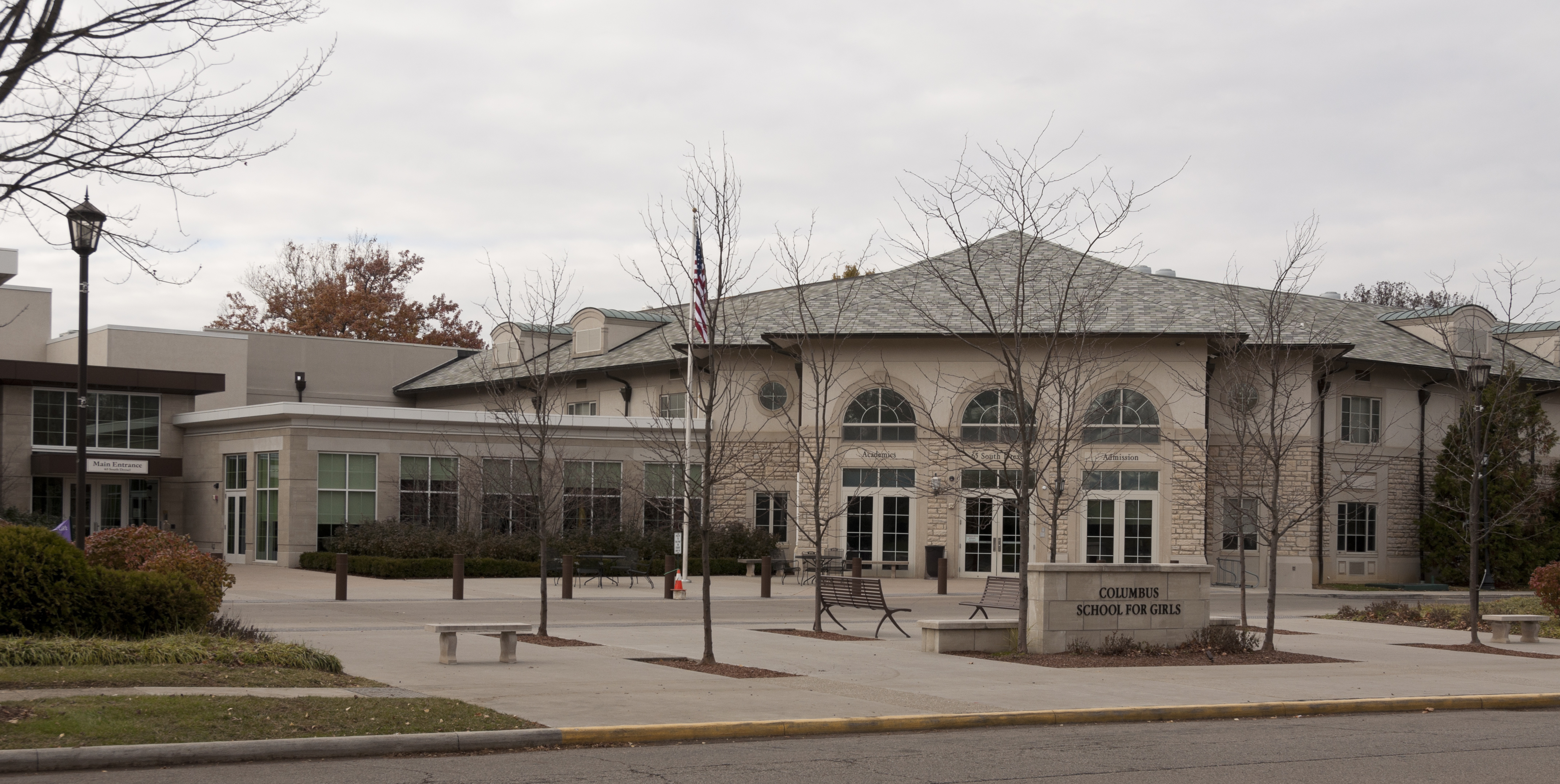 A view of the Columbus School for Girls, a private all-girls college-preparatory day school located in Bexley, Ohio, seen from the east. It offers PK through 12th grade. It is also the only all-girls high school in Franklin County, Ohio.